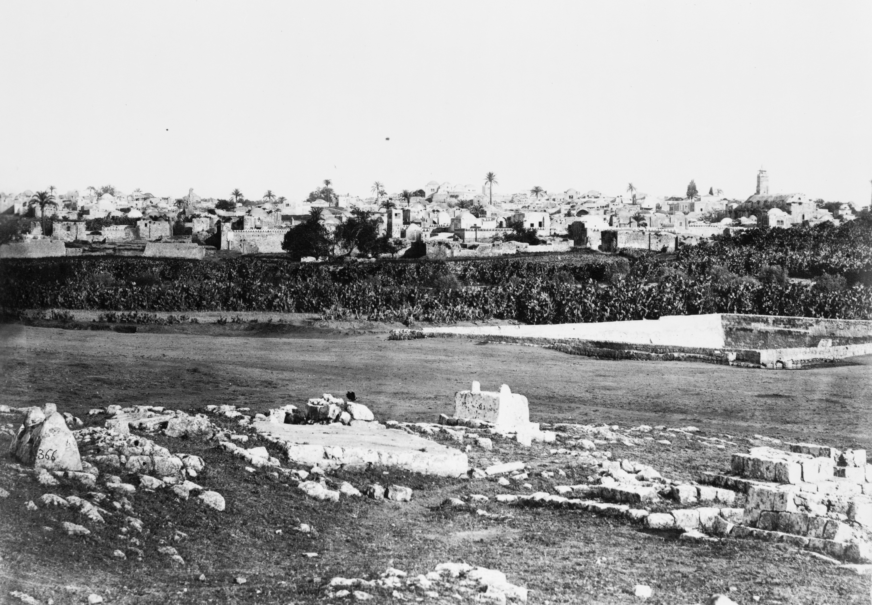 Ramleh, Palestine, late 19th century. In album: Constantinople, Smyrna, Beyrout, Ba'albec, Damascus, p. 43B, pl. 86.